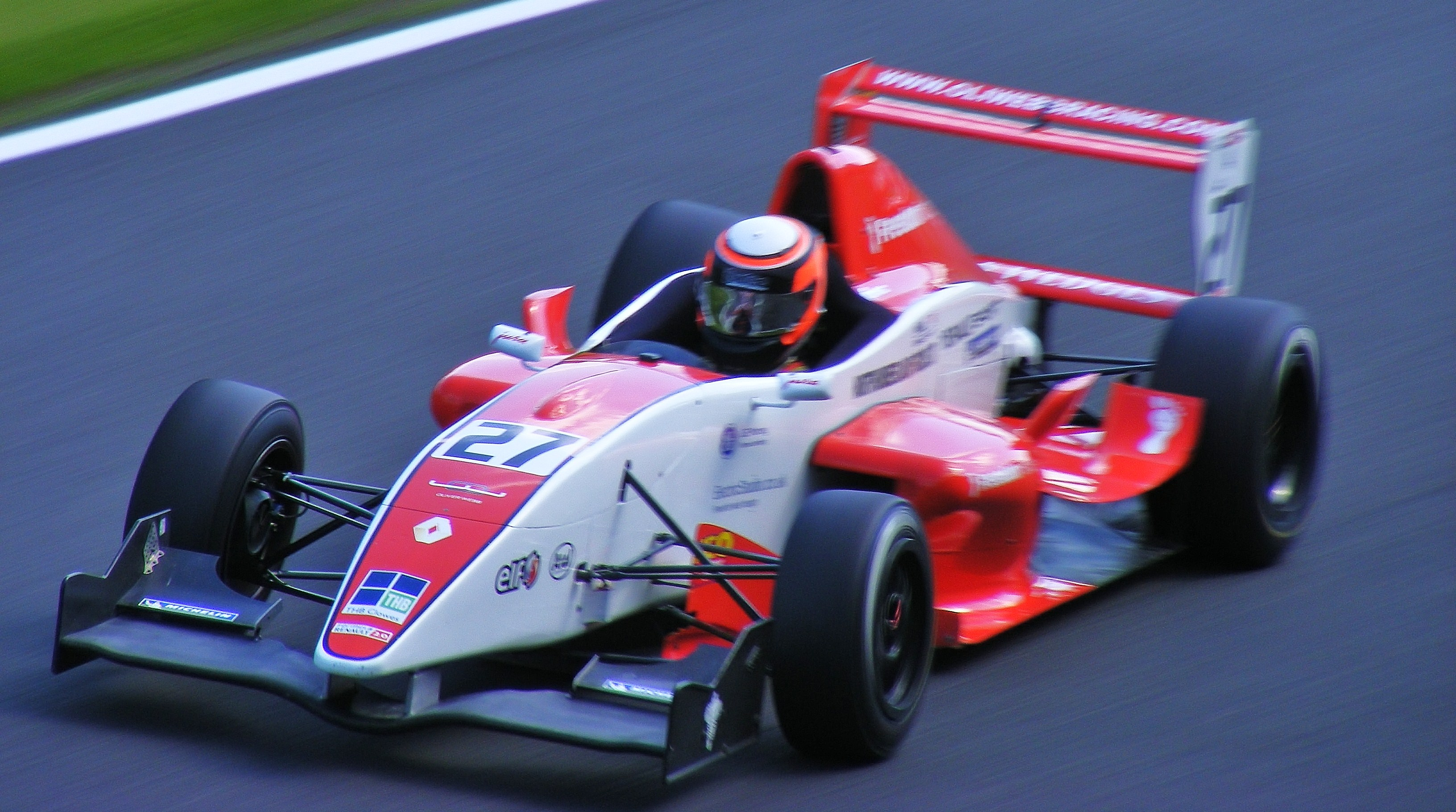 Oliver Webb climbs Clay Hill at Oulton Park during a qualifying session.